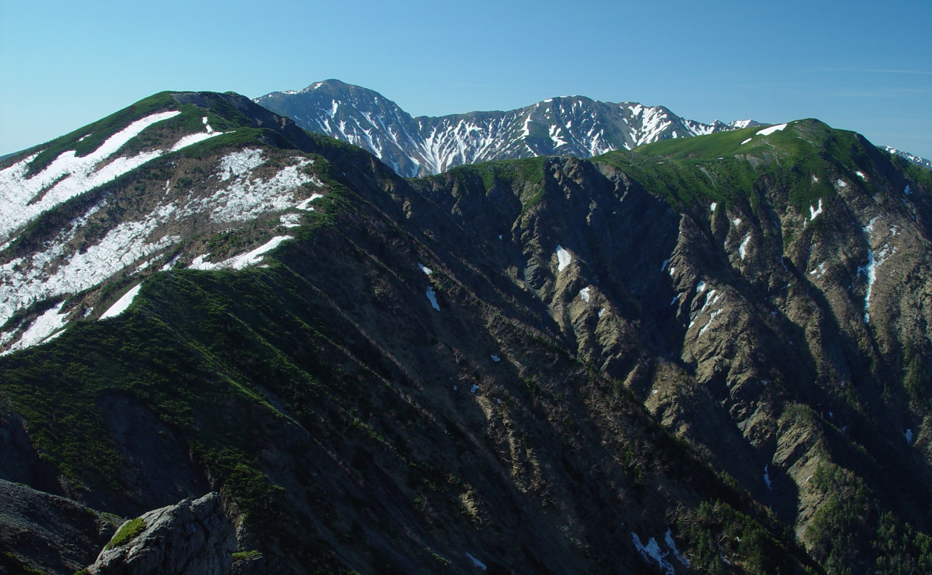 Mount Arakawa and Mount Kogōchi from Mount Eboshi Akaishi Mountains